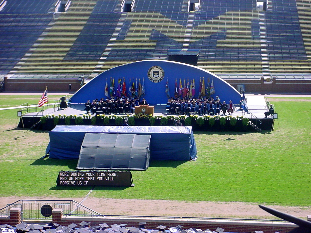 I took this picture at the April 2003 commencement ceremony held in Michigan Stadium. 12:36, 27 September 2006 . . Terryfoster . . 1280×960 (628,427 bytes)